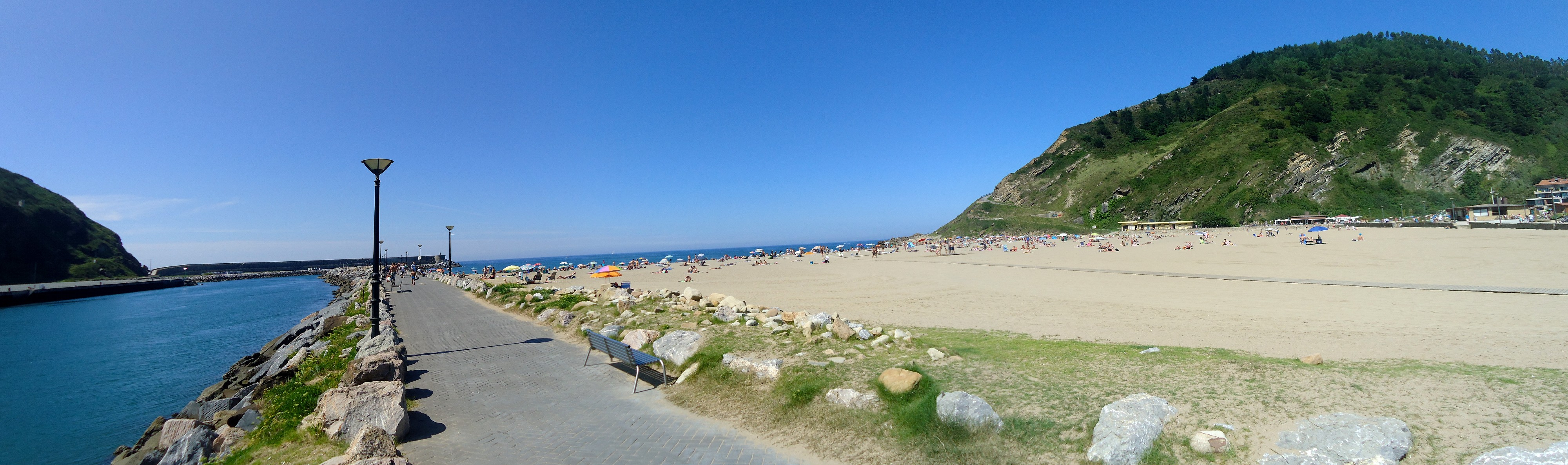 Beach of Orio (Gipuzkoa, Basque Country)